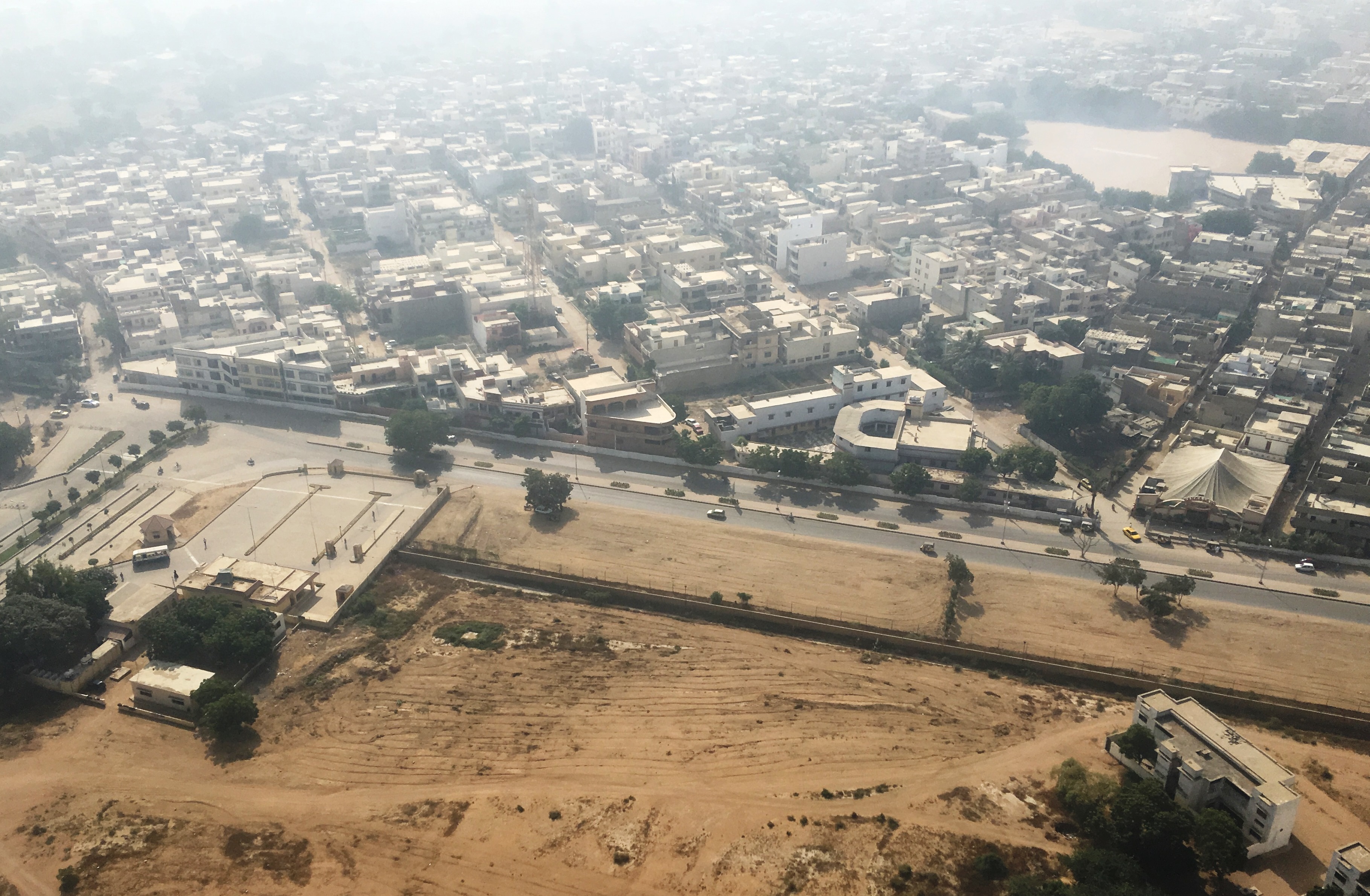 Image seen from the north towards south, of the northernmost areas of the Malir Town district ("thesihl") in eastern Karachi, Pakistan.